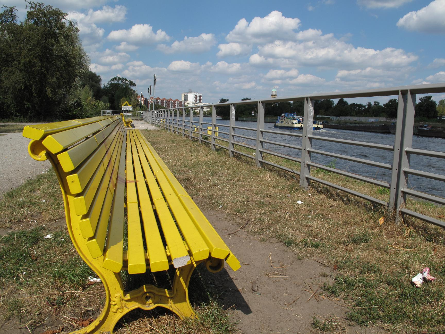 End of the green space Bullengraben at the Lindenufer of river Havel. The Bullengraben (german for: bullditch) is a drainage channel to the river Havel in the localities Staaken, Wilhelmstadt and Spandau in the borough Berlin-Spandau, Germany. In 2007 there was opened the green space Bullengraben (german: „Grünzug Bullengraben“) along the 4,5 kilometre long ditch.